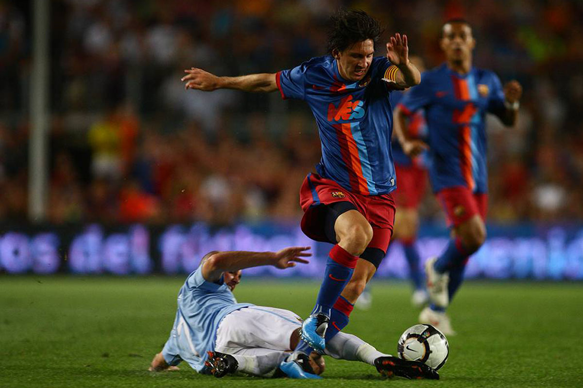 AUGUST 19, 2009 - Football : Lionel Messi of Barcelona in action during the Joan Gamper Trophy match between Barcelona and Manchester City at the Camp Nou Stadium on August 19, 2009 in Barcelona, Spain. (Photo by Tsutomu Takasu)